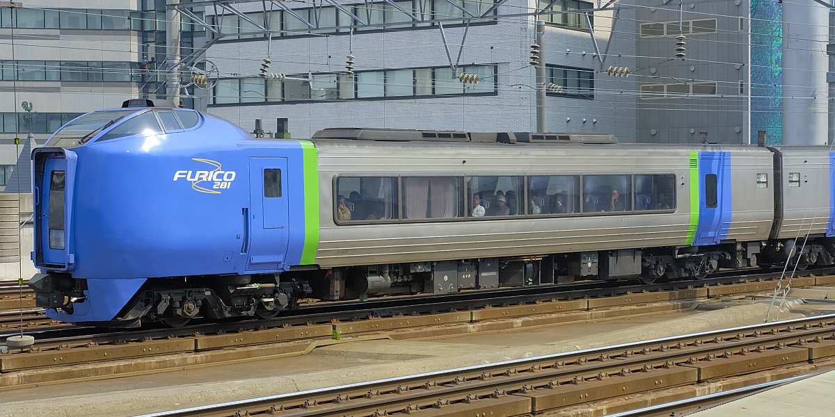 JR Hokkaido KiHa 281 series DMU car KiHa 281-902 (pre-production car) at Sapporo Station on a Super Hokuto service